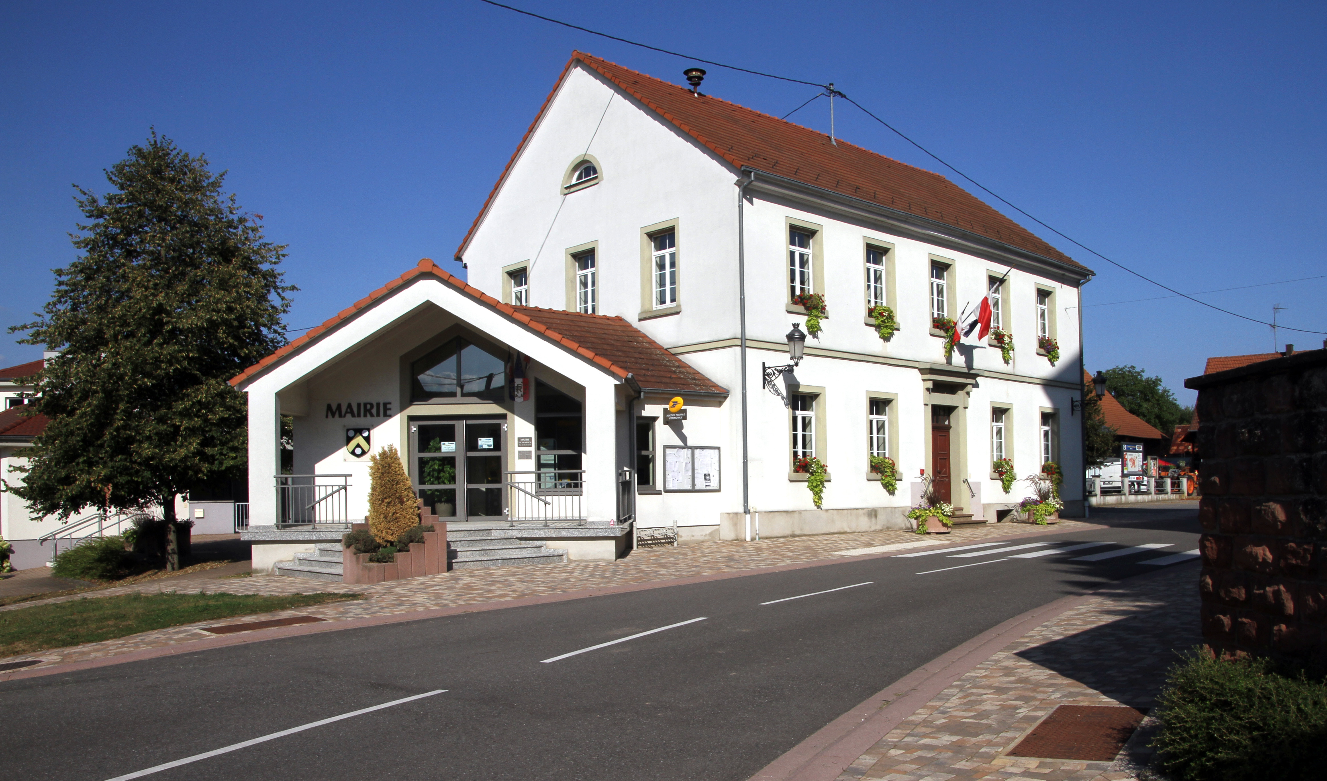 City hall of Salmbach.